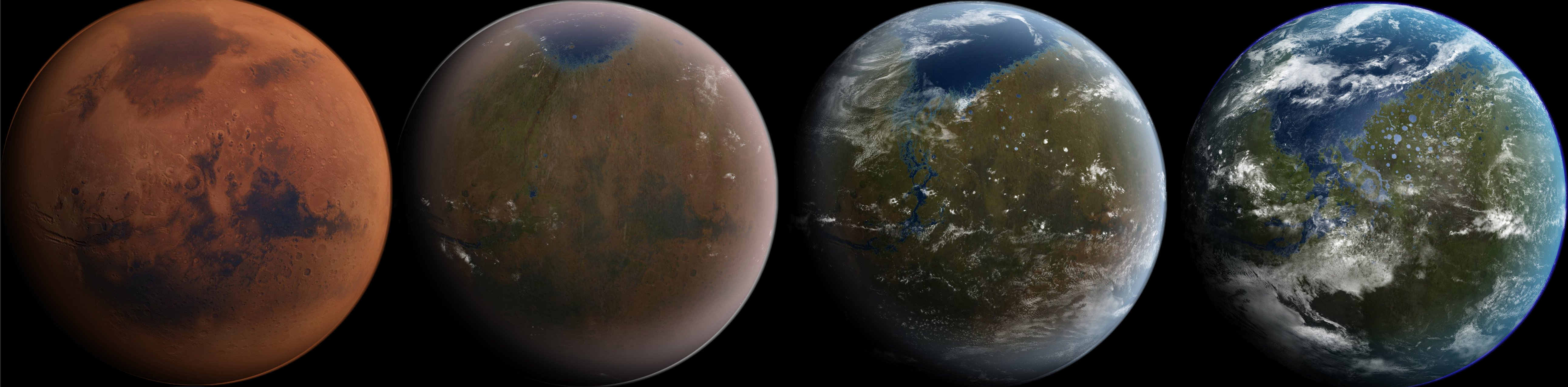 Copied from Image:MarsTransitionV.jpg: "..."